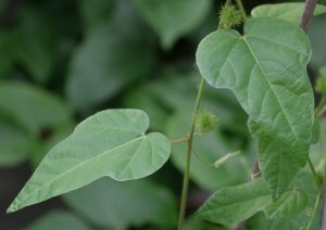 Passiflora foetida leaves nl:Afbeelding:Passiflora foetida.leaves.jpg